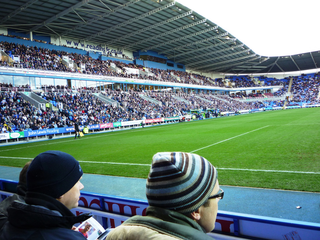 Marks my 1st live match in the UK!